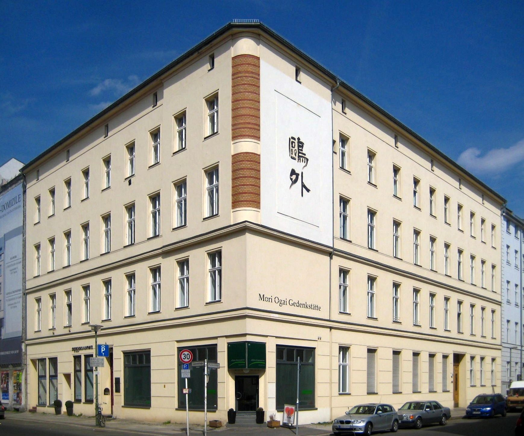 Residential building at Luisenstraße No. 39, corner of Marienstraße No. 32 (right), in Berlin-Mitte. It was built in 1877 and houses the Mori Ogai memorial site of Hummboldt University. It is part of the protected historic buildings area Friedrich-Wilhelm-Stadt.